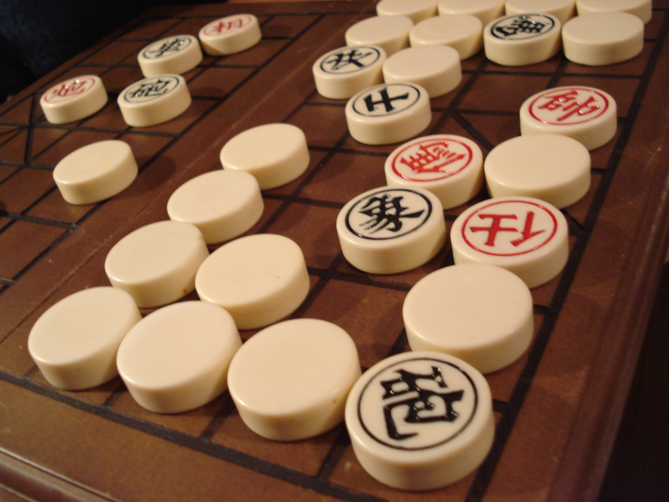 A photo of a Banqi game played on half a Xiangqi board.